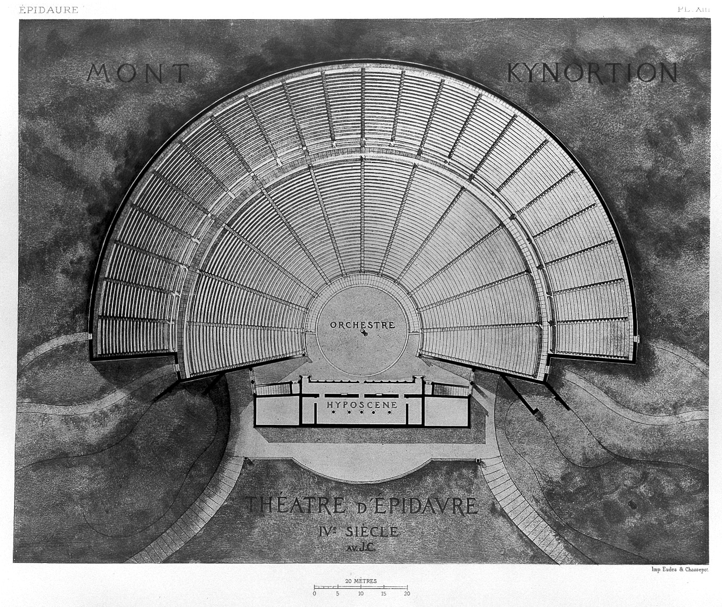 Reconstructions of the sacred precints at Epidaurus: plan of the theatre at Epidaurus General Collections Keywords: epidaurus; Alphonse Defrasse